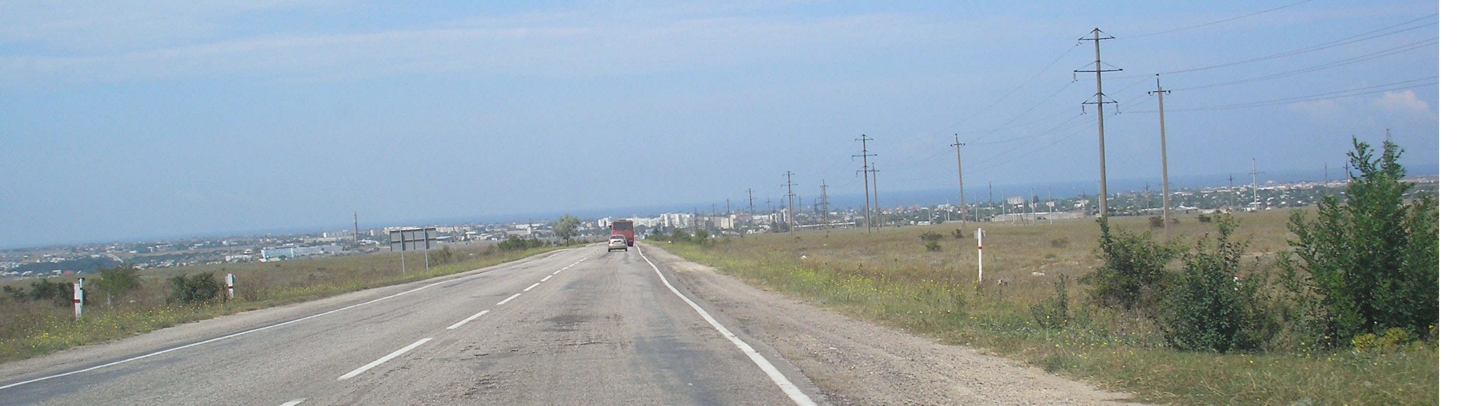 Chernomorskoe, Crimea. General view.